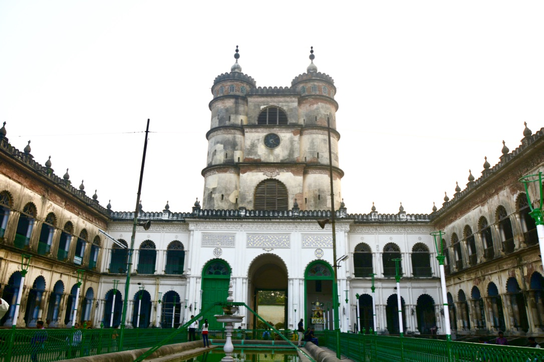 One of the front portion of Imambara Hooghly.